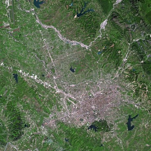 Tirana by SPOT Satellite